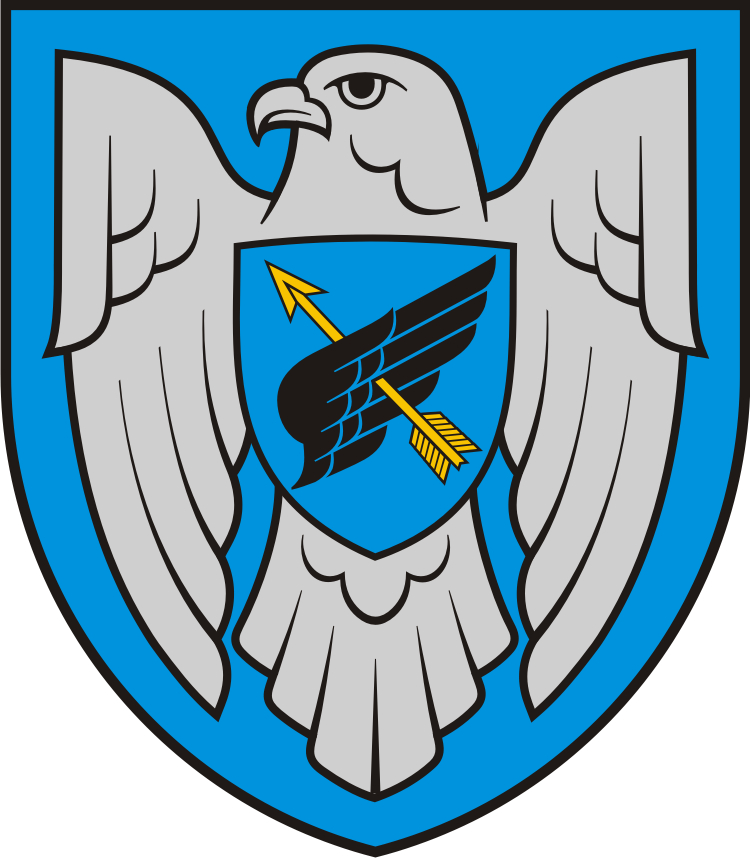 Insignia of the Air Defence Battalion of the Lithuanian Air Forces